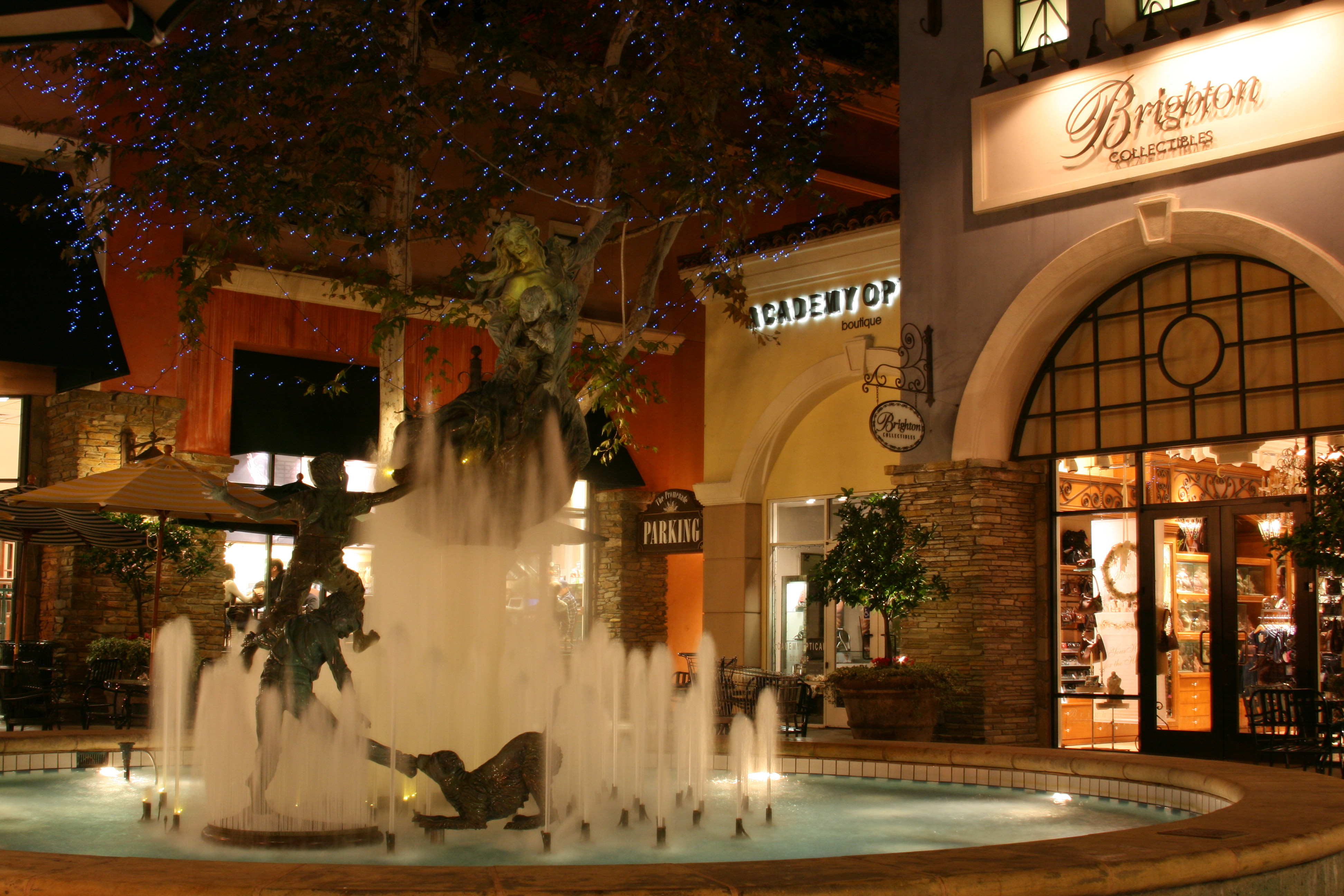 The Promenade shopping center (with fountain), in Westlake Village, southern California.